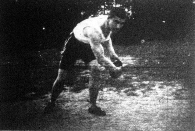 György Luntzer, Hungarian Olympic athlete